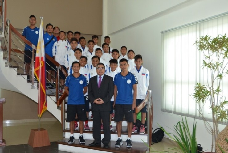 The Philippine national U14 football team coached by Chieffy Caligdong (front left; in blue) poses with Ambassador to Brunei, Meynardo LB. Montealegre (front center) in the Philippine Embassy in Badar Seri Begawan. The team participated at the AFC U14 Regional Festival of Football 2016.